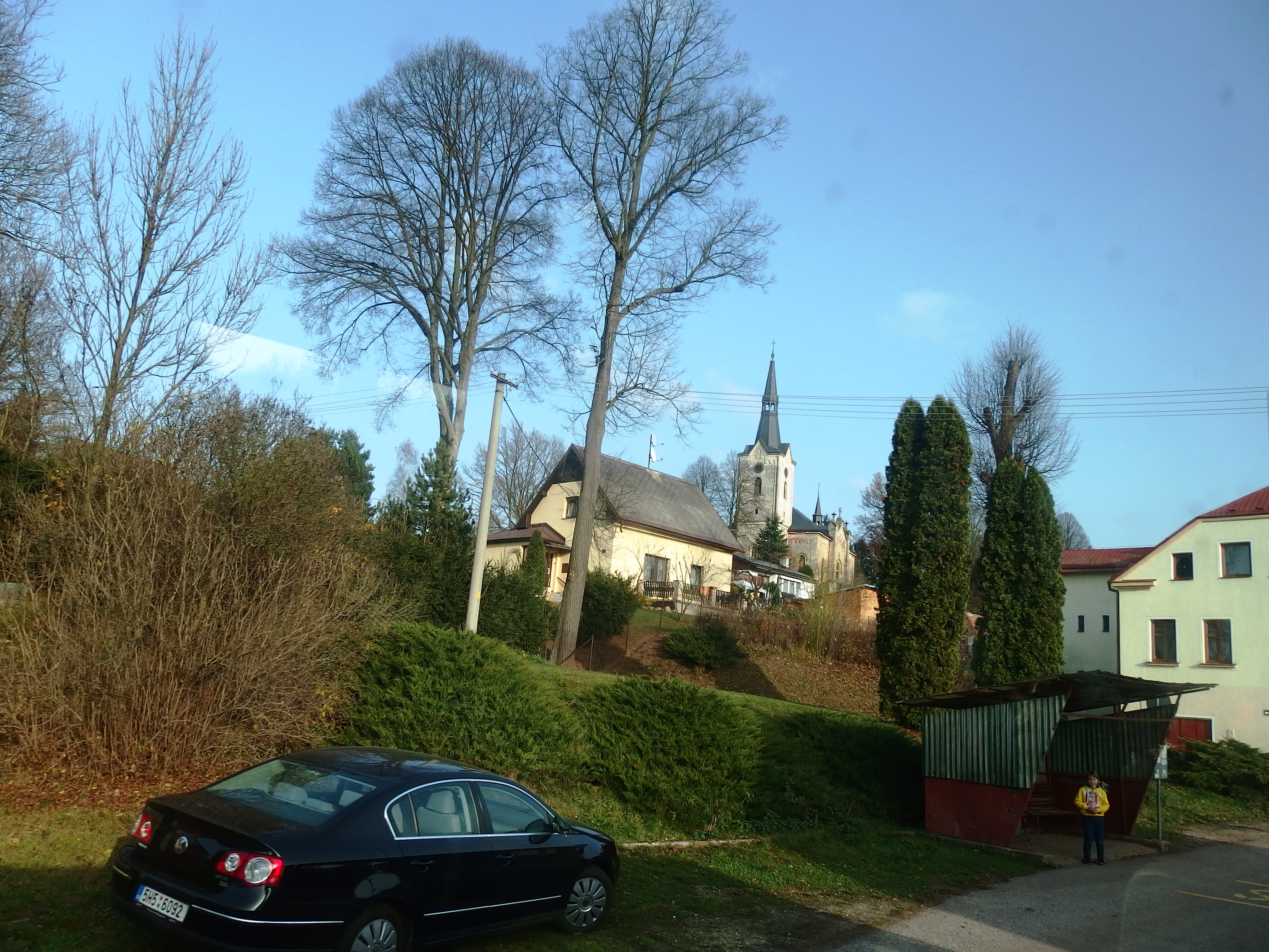 Chotěvice, Trutnov District, Czech Republic.